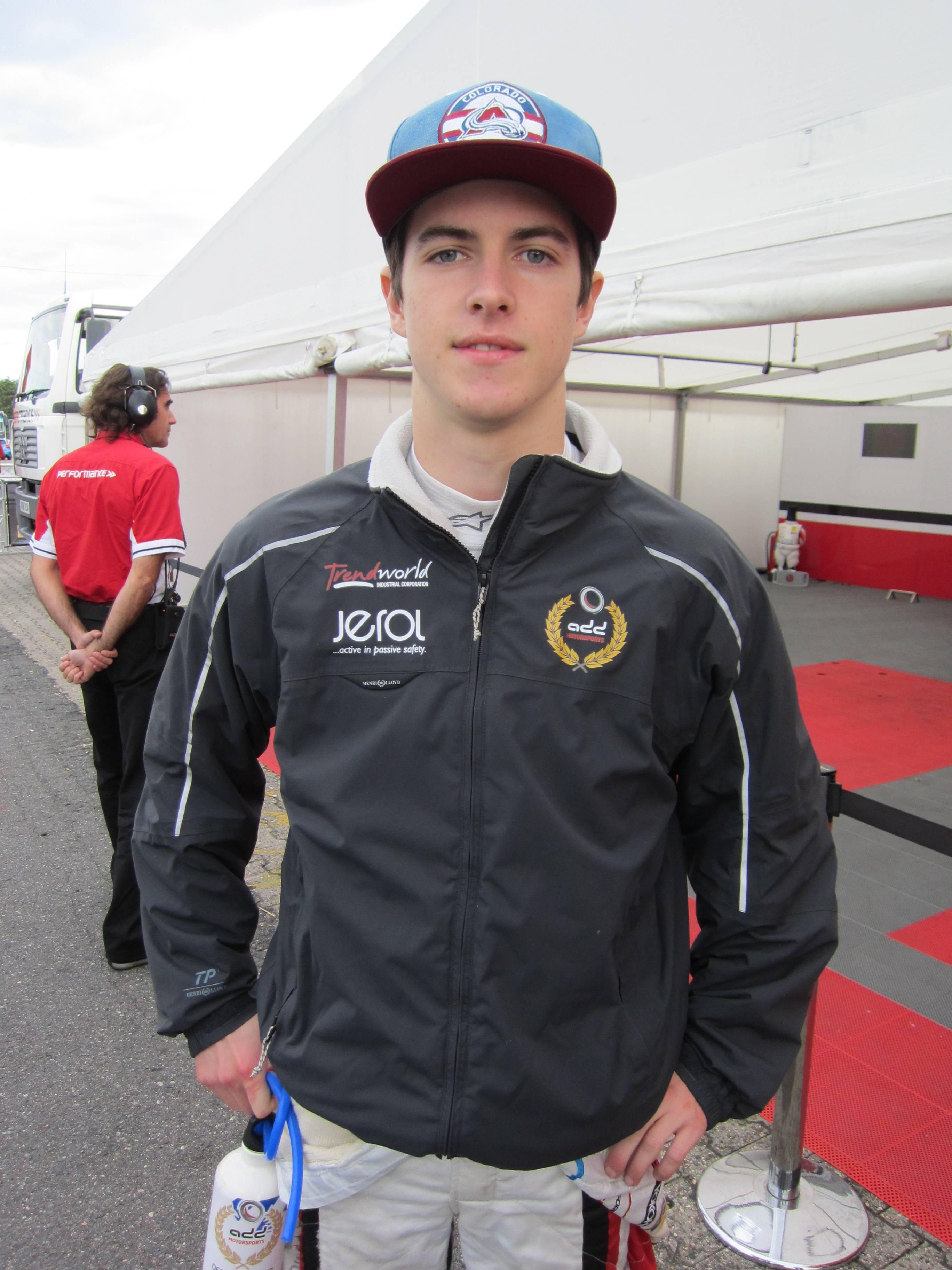 John Bryant-Meisner: the photo was taken during 2013's ADAC GT Masters race weekend at Hockenheim